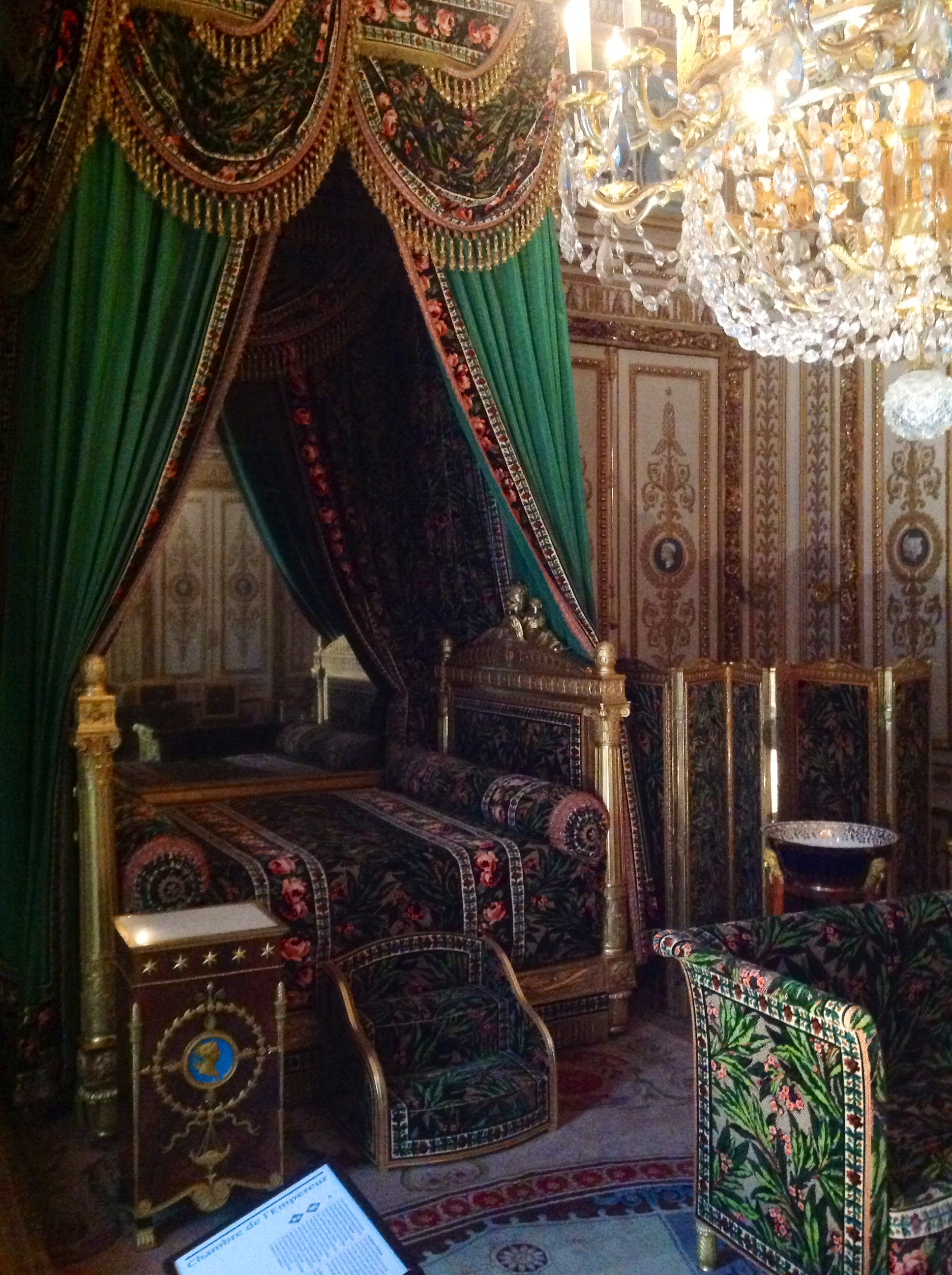 Bedroom of the Emperior Napoleon in the Palace of Fontainebleau